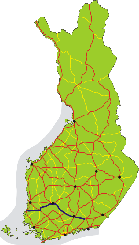 Map of the main road (highway) 12 in Finland, shown in dark blue. The other 1st class main roads (numbers 1–29) are red, 2nd class main roads (numbers 40–98) yellow. Black dots show the 12 biggest urban areas.